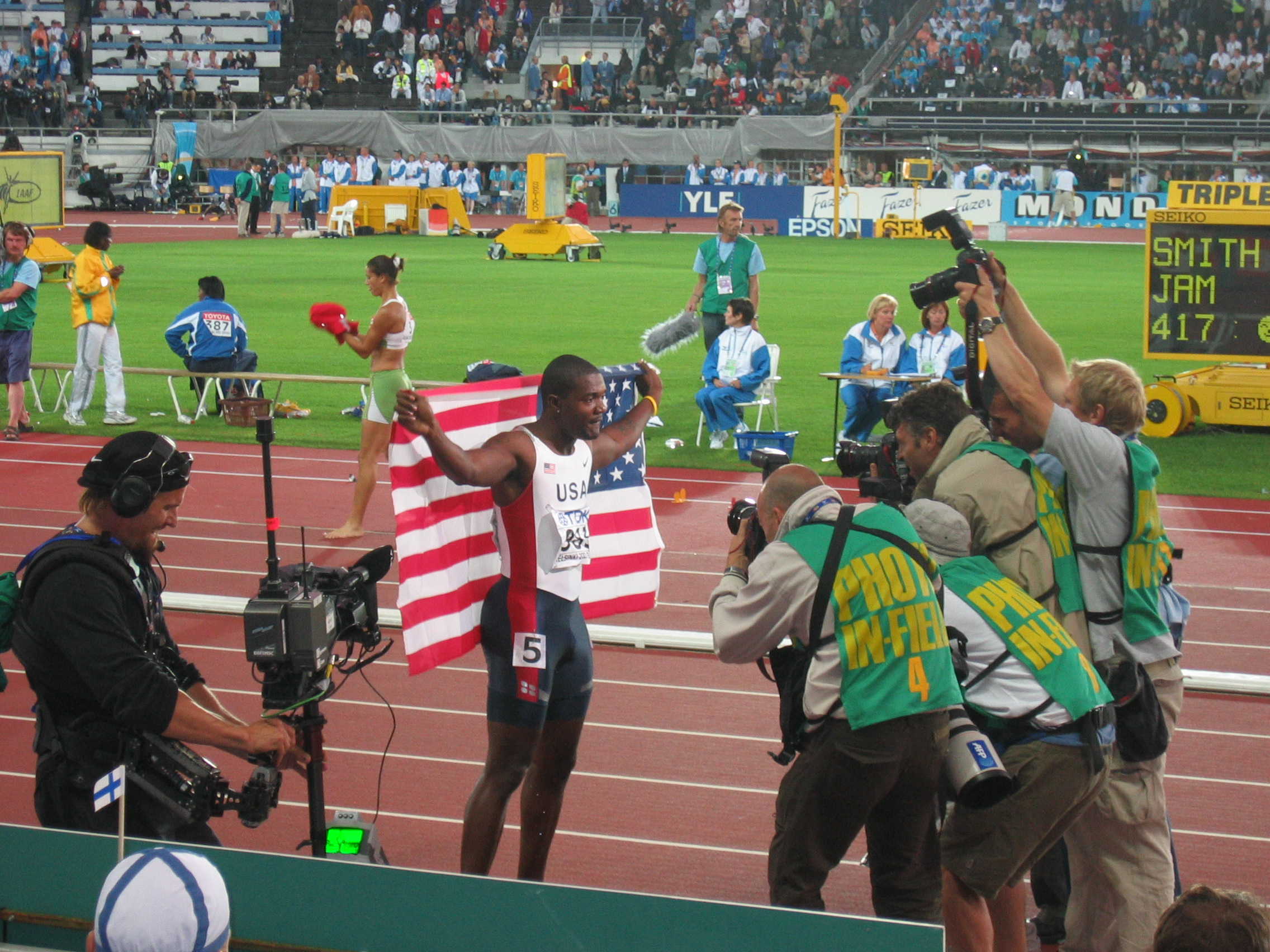 Justin Gatlin in Helsinki, 10th IAAF World Championships in Athletics, after he won 100 Metres.